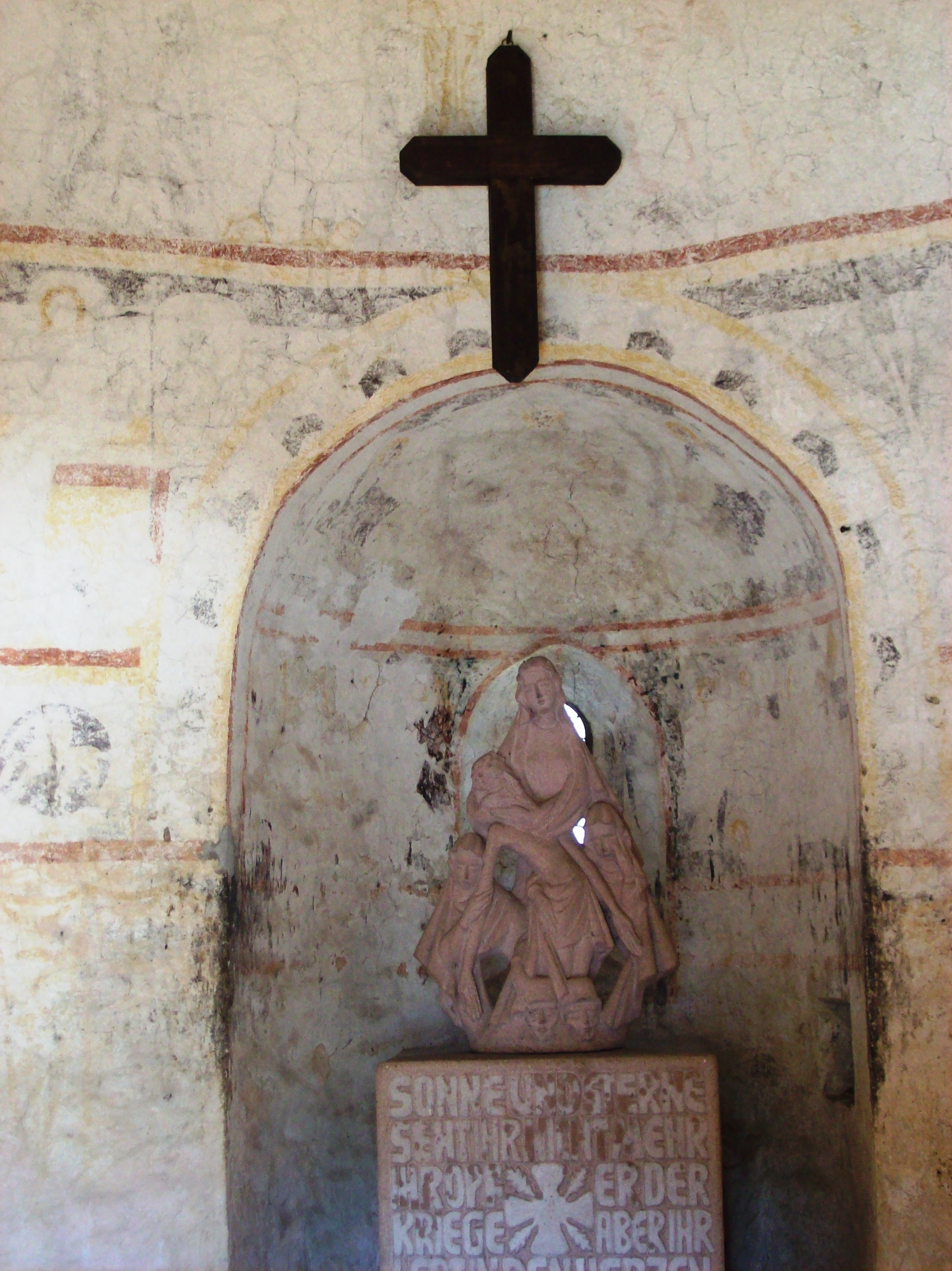 Friedhof mit von Alfred Schlosser gestaltetem Karner hl. Michael (1966)